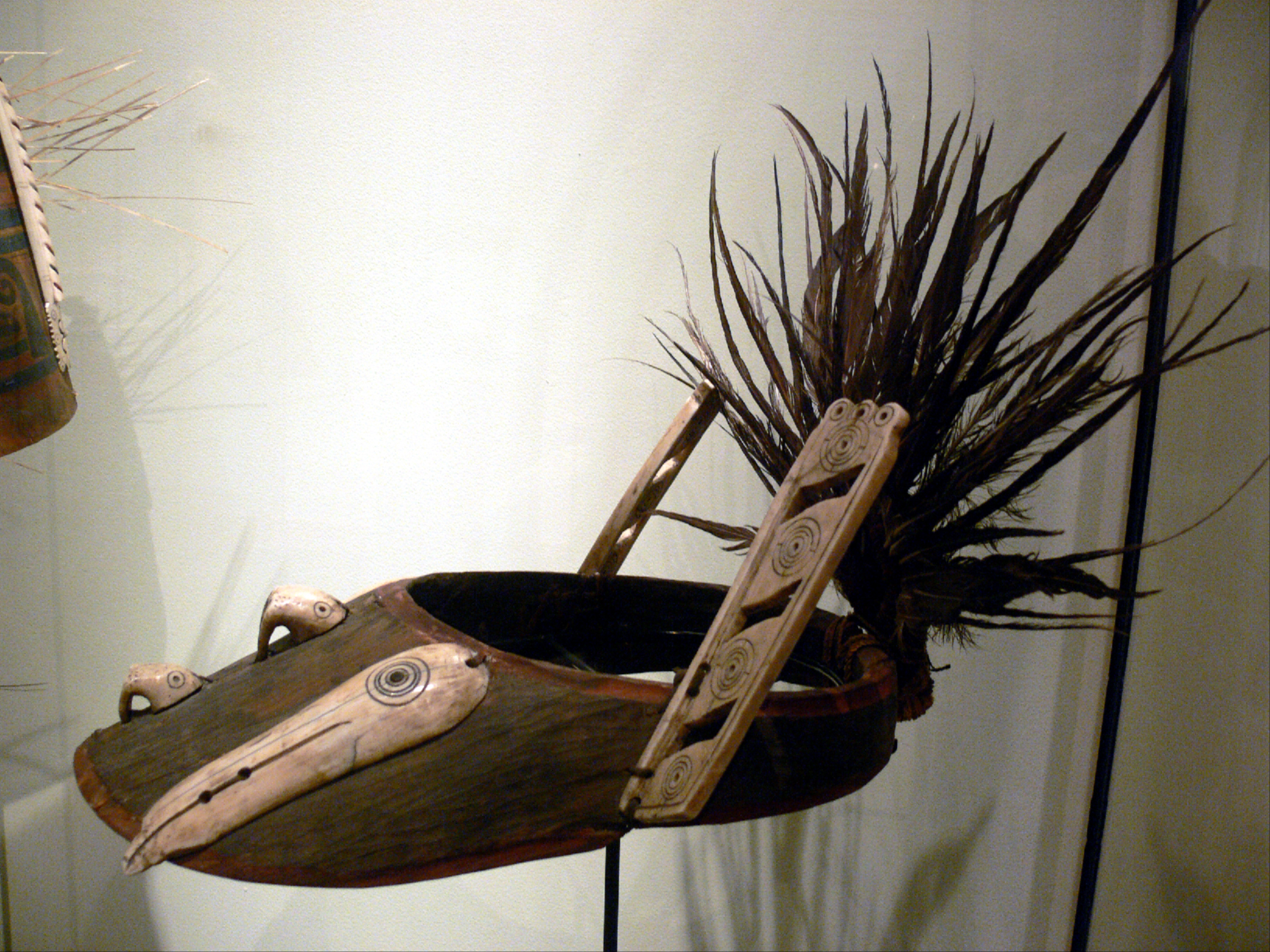 Hunting visor with ivory and feather decoration; Yup'ik people; North America department, Ethnological Museum, Berlin, Germany (Jacobsen collection, 188